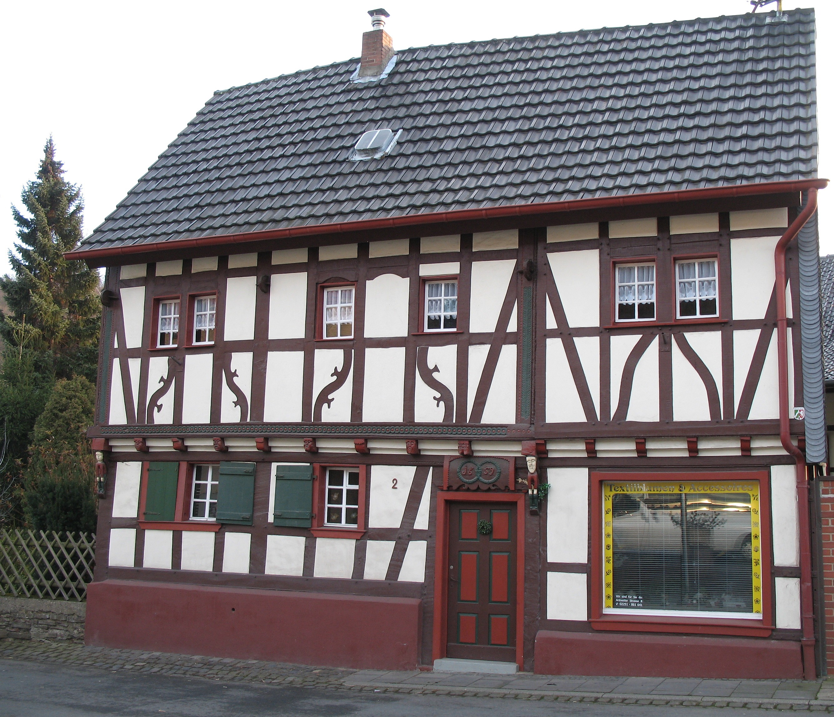 350 years old timber framed house in Euskirchen-Kreuzweingarten village, Eifel region of Germany